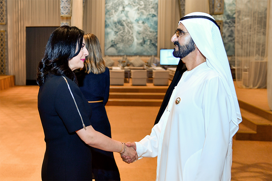 Zeina Soufan meeting His Highness Sheikh Mohammed bin Rashid Al Maktoum